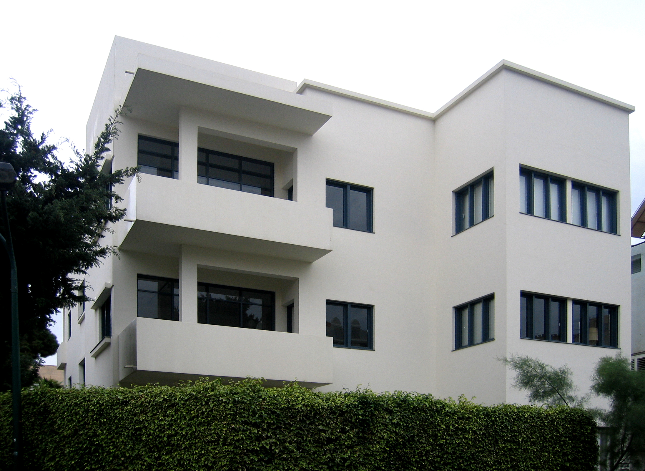 Museum of Bauhaus that will be opened at Bialik Street, Tel Aviv-Yafo.